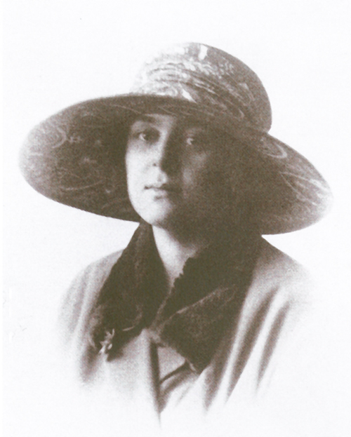 Alessandra Wolff tra i venti